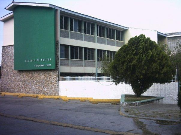 Frontal view of the Victoriano Lopez School of Music at its current location (1978 - present).